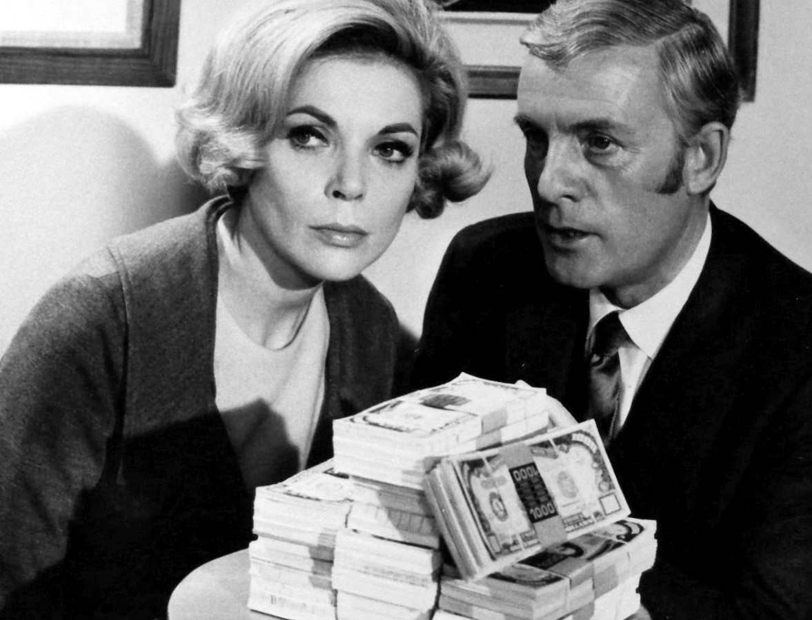 Photo of Barbara Bain and Alf Kjellin from the television program Mission: Impossible.